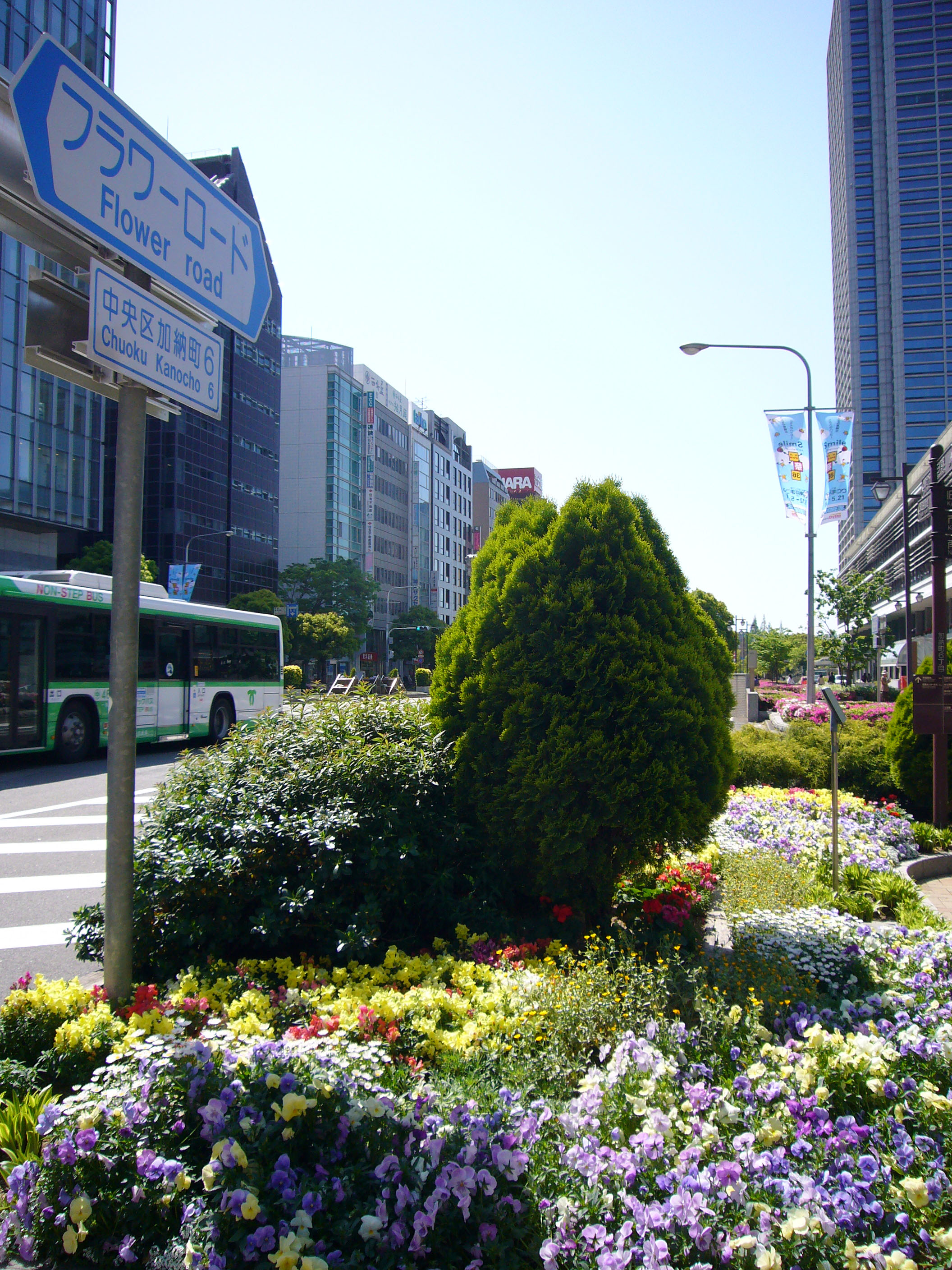 Flower Road in Kobe, Hyogo prefecture, Japan